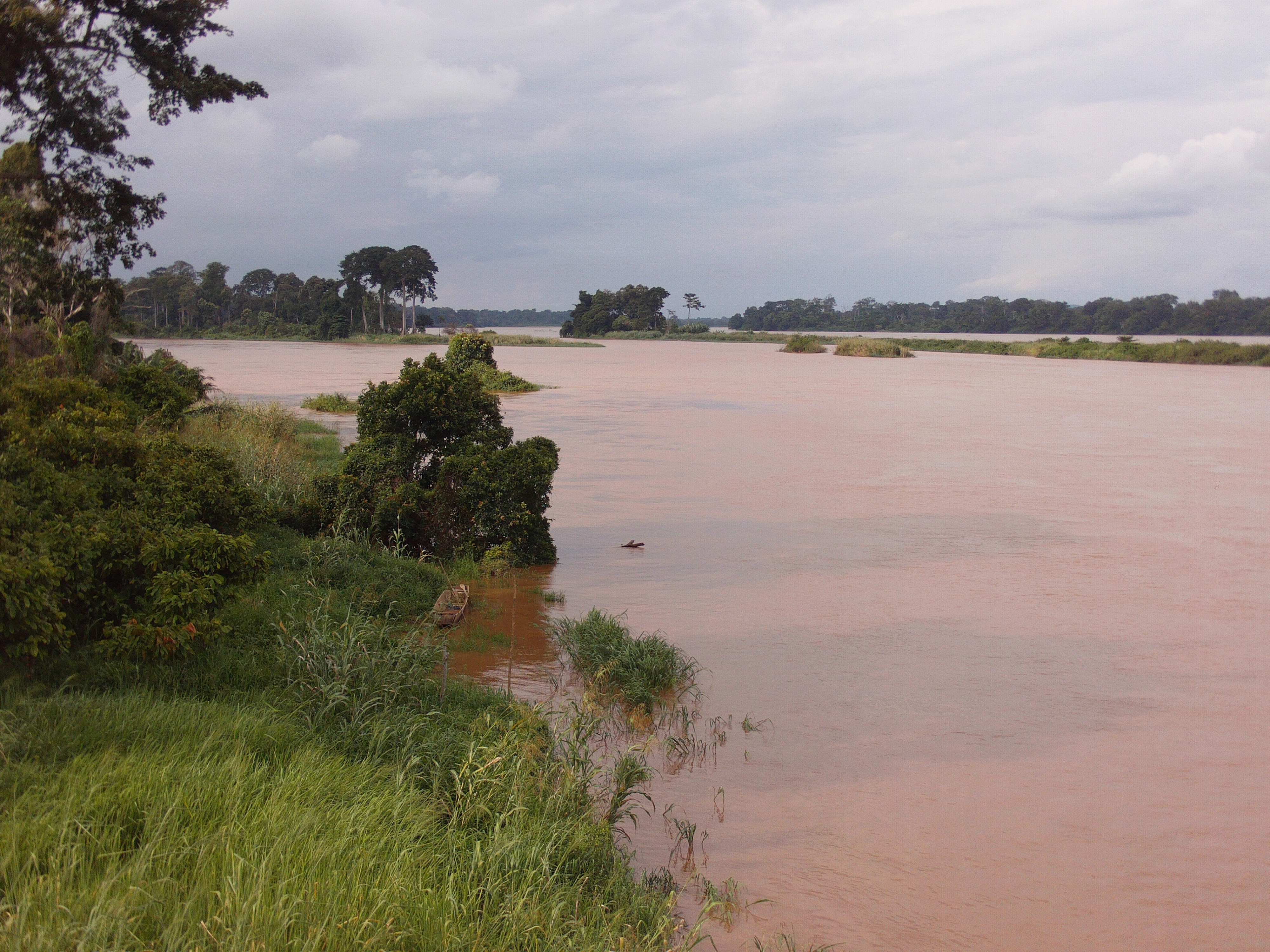 The estuary of the Mbam river (left) into the Sanaga river.